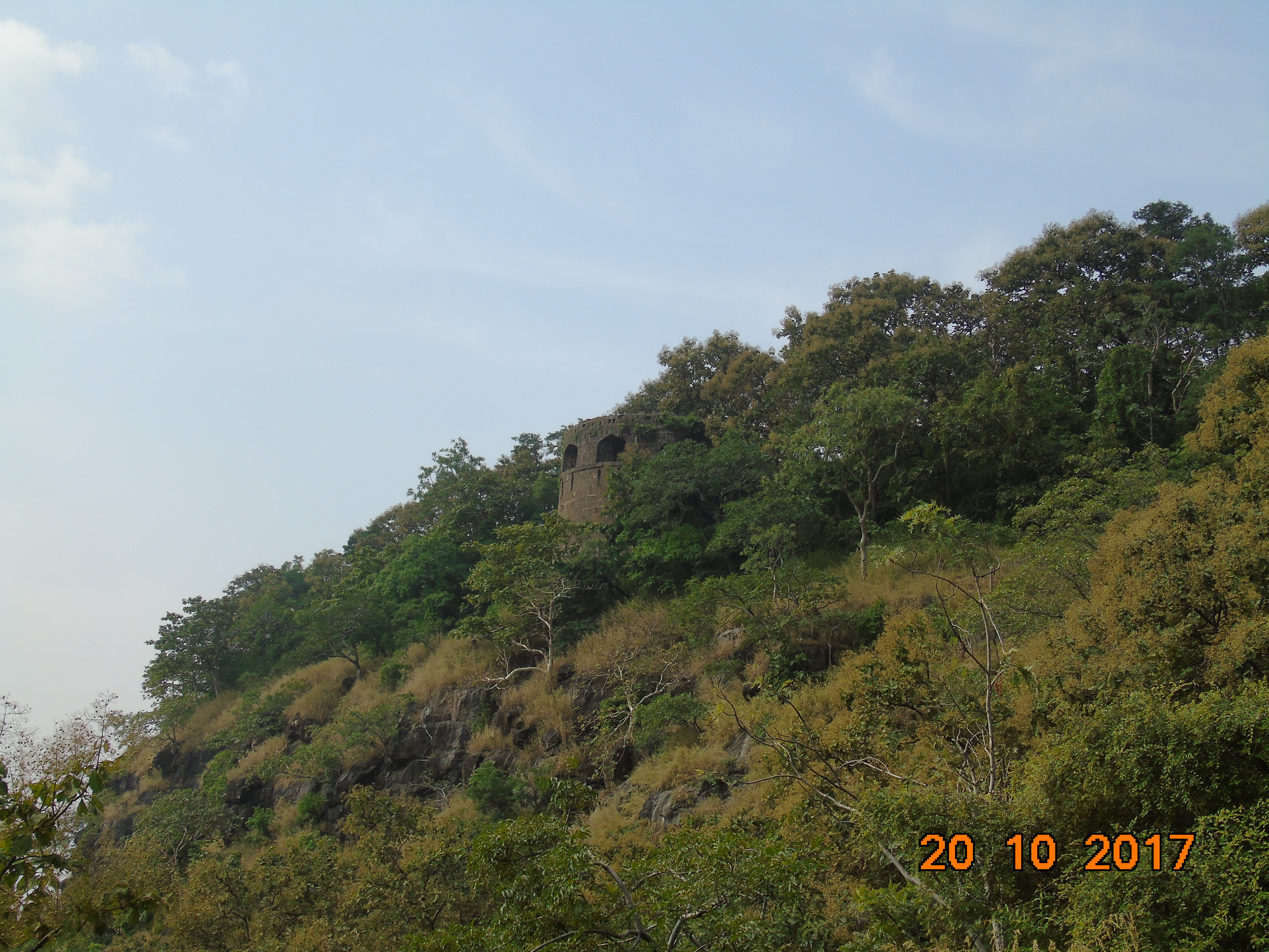 Shows the fortification of Narnala